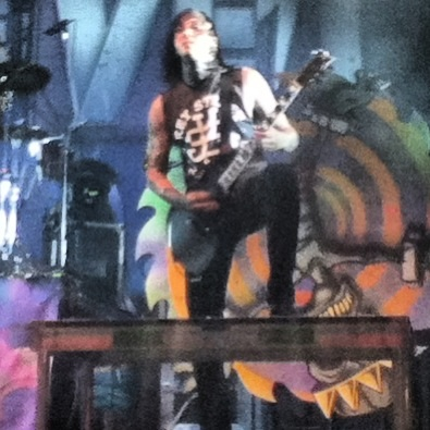 Tony Perry of Pierce The Veil playing at Jannus Live, St Petersburg, FL, on the Spring fever tour co-headlined by All Time Low. With supporting acts Mayday Parade, and You Me At Six.